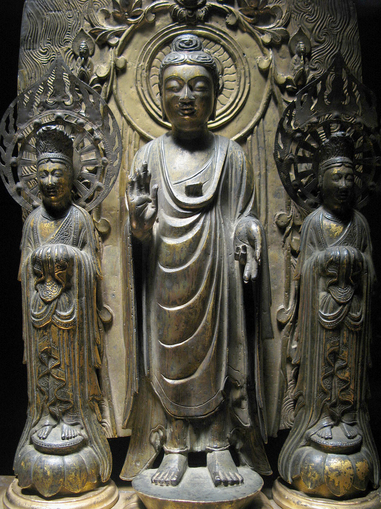 (English) A Korean gilt-bronze Buddha triad from the Baekje Kingdom, 6th or 7th century. Horyu-ji Dedicated Treasure no. 143 now at the Tokyo National Museum. (日本語) 重要文化財 銅造如来及両脇侍立像 韓国・三国時代（百済） 6～7世紀 東京国立博物館（法隆寺献納宝物143号）